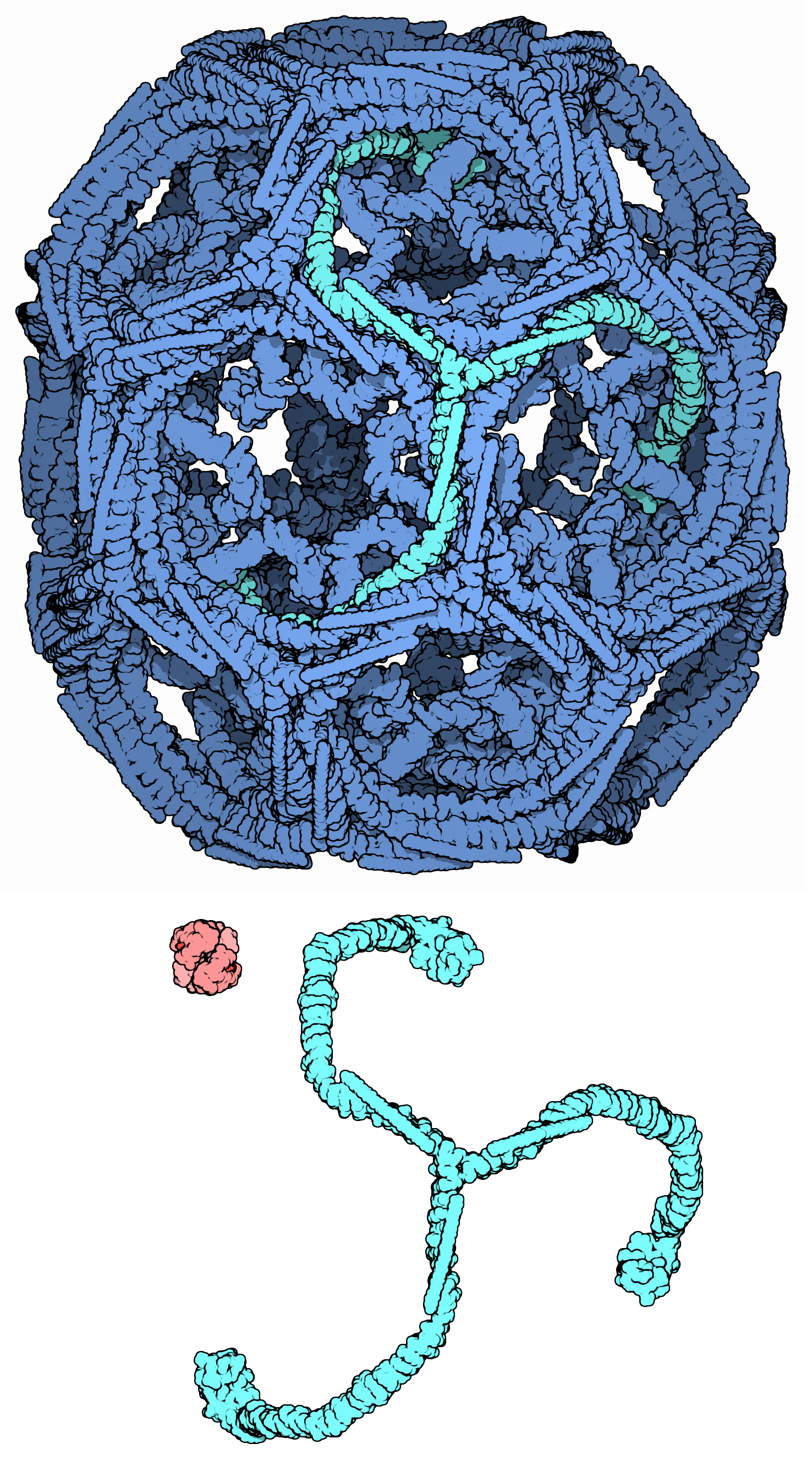 Shaded space-fill drawing of a small clathrin cage (top), and one component "triskelion" (cyan), plus hemoglobin (pink) for size comparison. From PDB file 1xi4, by David Goodsell in RCSB Molecule of the Month #88.